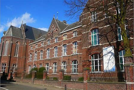 Sint-Hubertuscollege, Neerpelt, Belgium